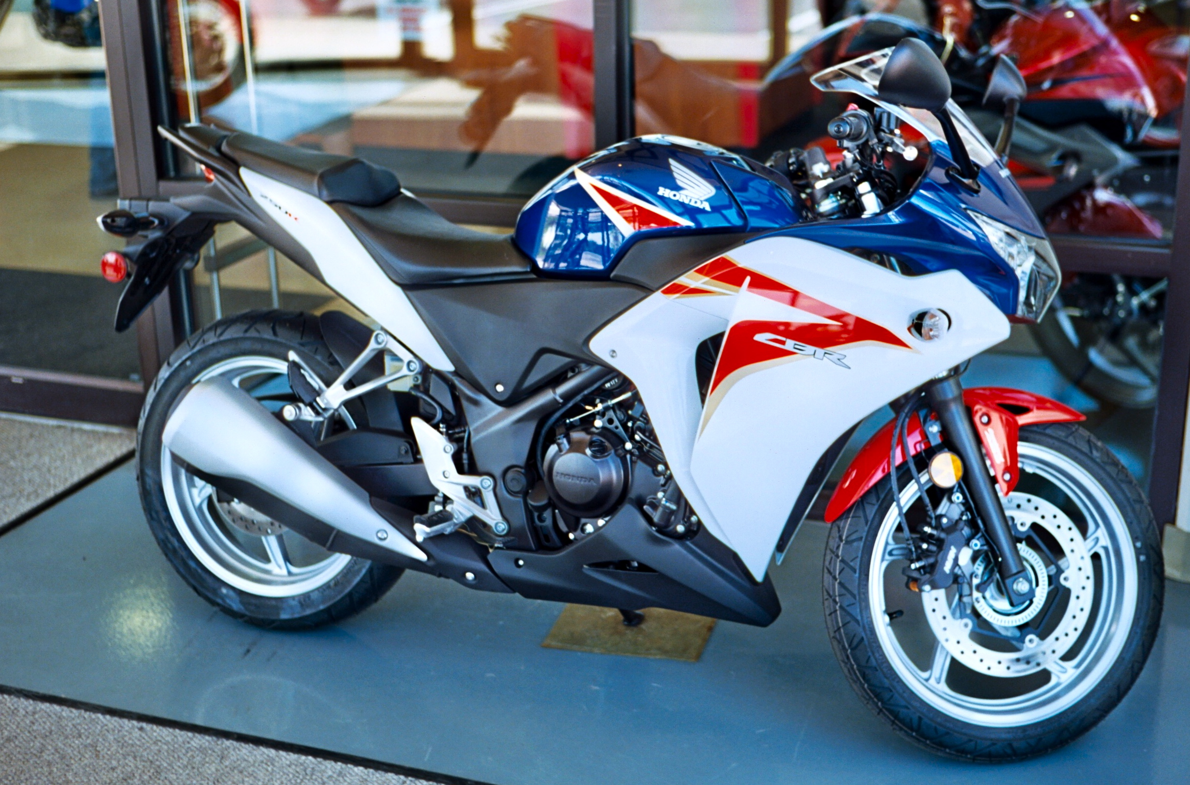 Honda CBR250R at Hinshaw's Motorcycle Store. 1611 W Valley Highway South Auburn, WA 98001.